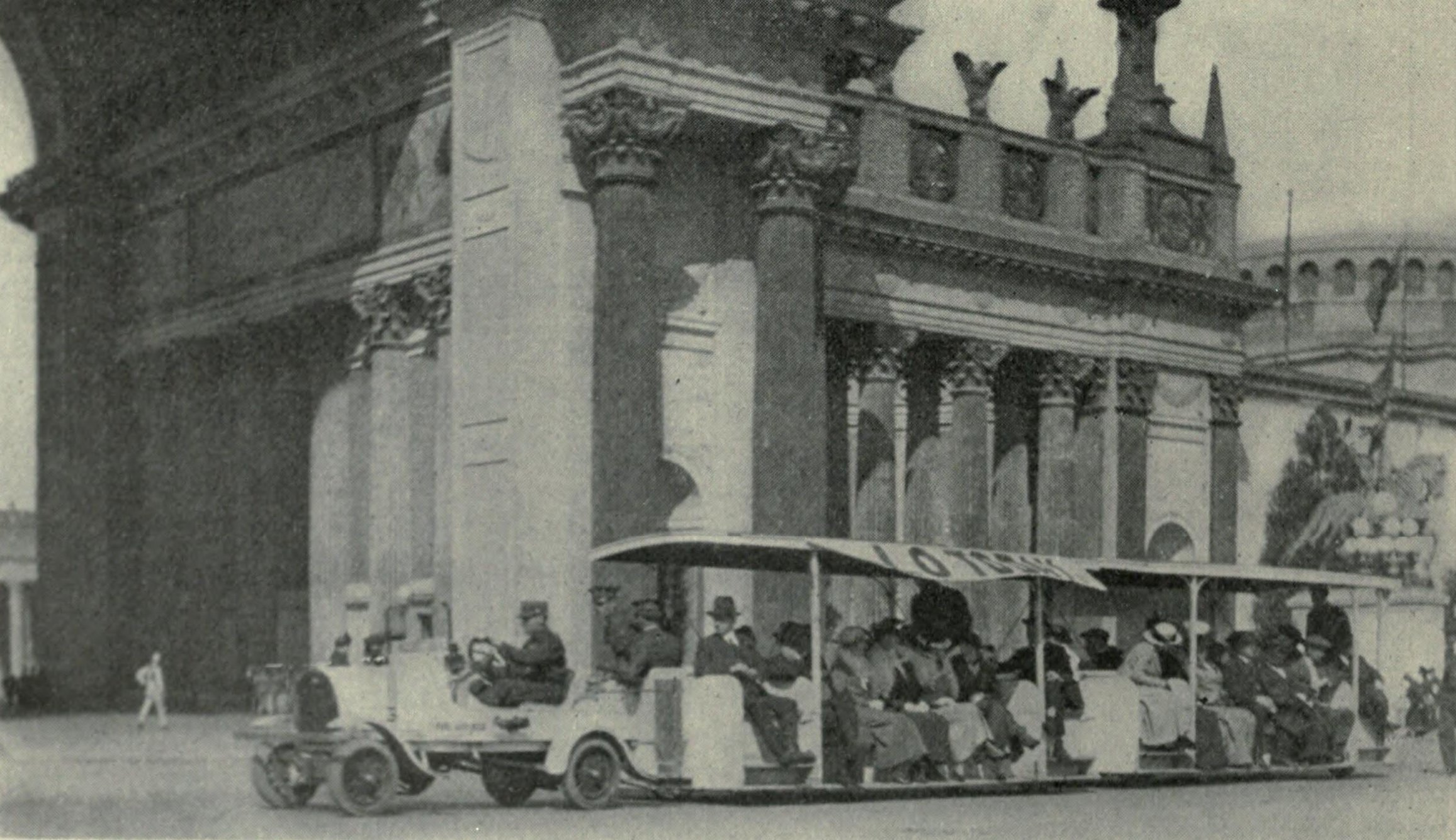 A photograph of a small tractor pulling tour trolleys behind it at the 1915 Panama-Pacific Exposition in San Francisco. The vehicle was called the Fadgl Auto Train, and was noted for its safety in that its first step was so low to the ground. This concession was developed by Rolle B. Fageol, a prolific inventor. Photograph was published in November 1915 in Overland Monthly, a San Francisco-based literary journal.